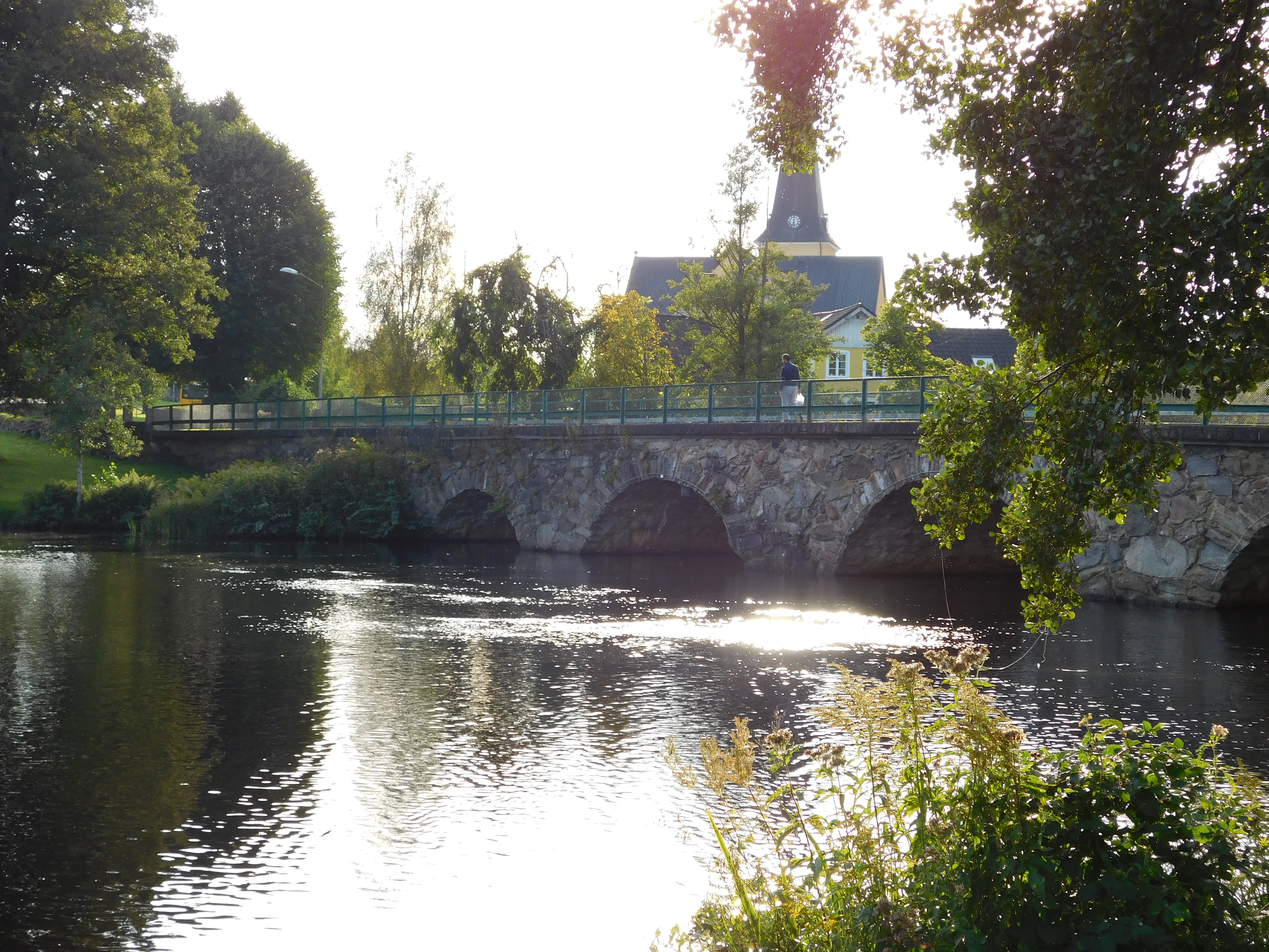 Bridge over Helge å in Broby